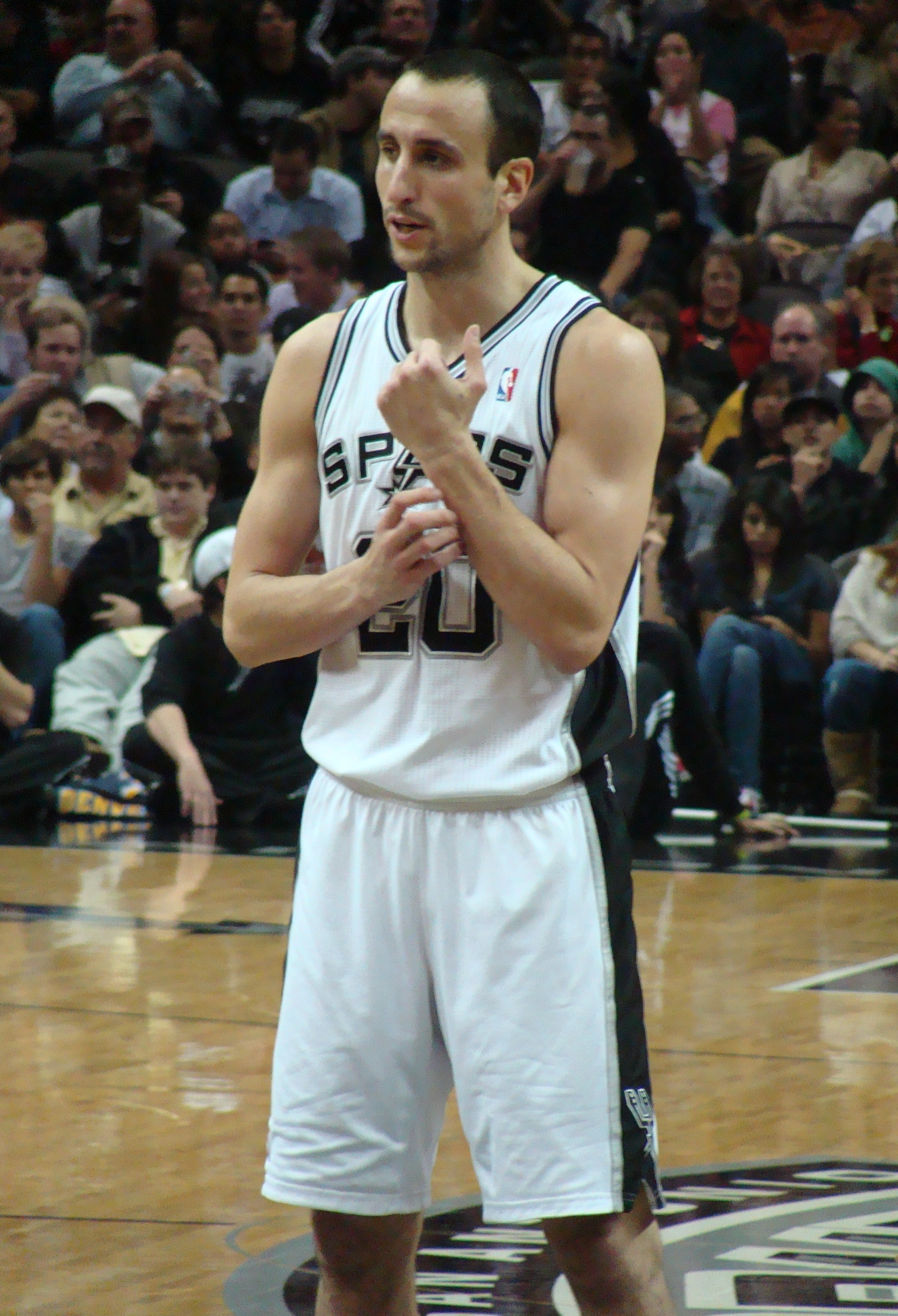 Manu Ginobili of the San Antonio Spurs, during a free throw at the Spurs-Nuggets match on 12-22-2010 in San Antonio, TX.